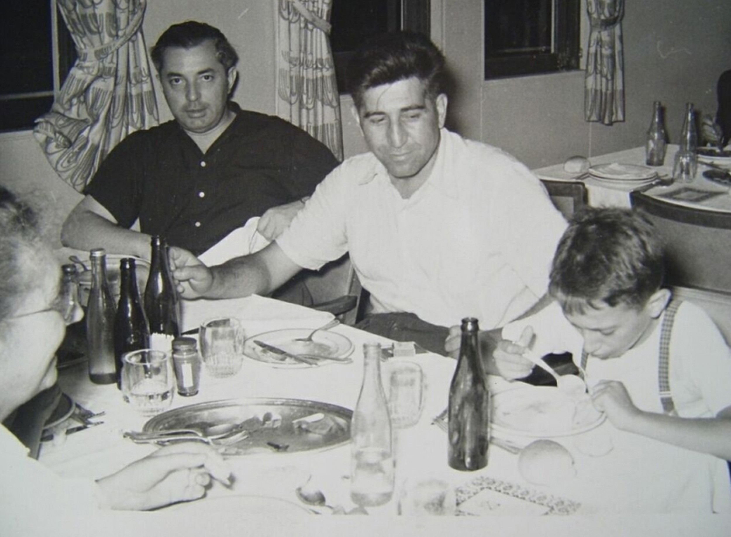 Nazim Terzioglu